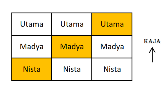 Philosophy of Balinese Cosmological-- Illustration of Tri Angga zone/spatial